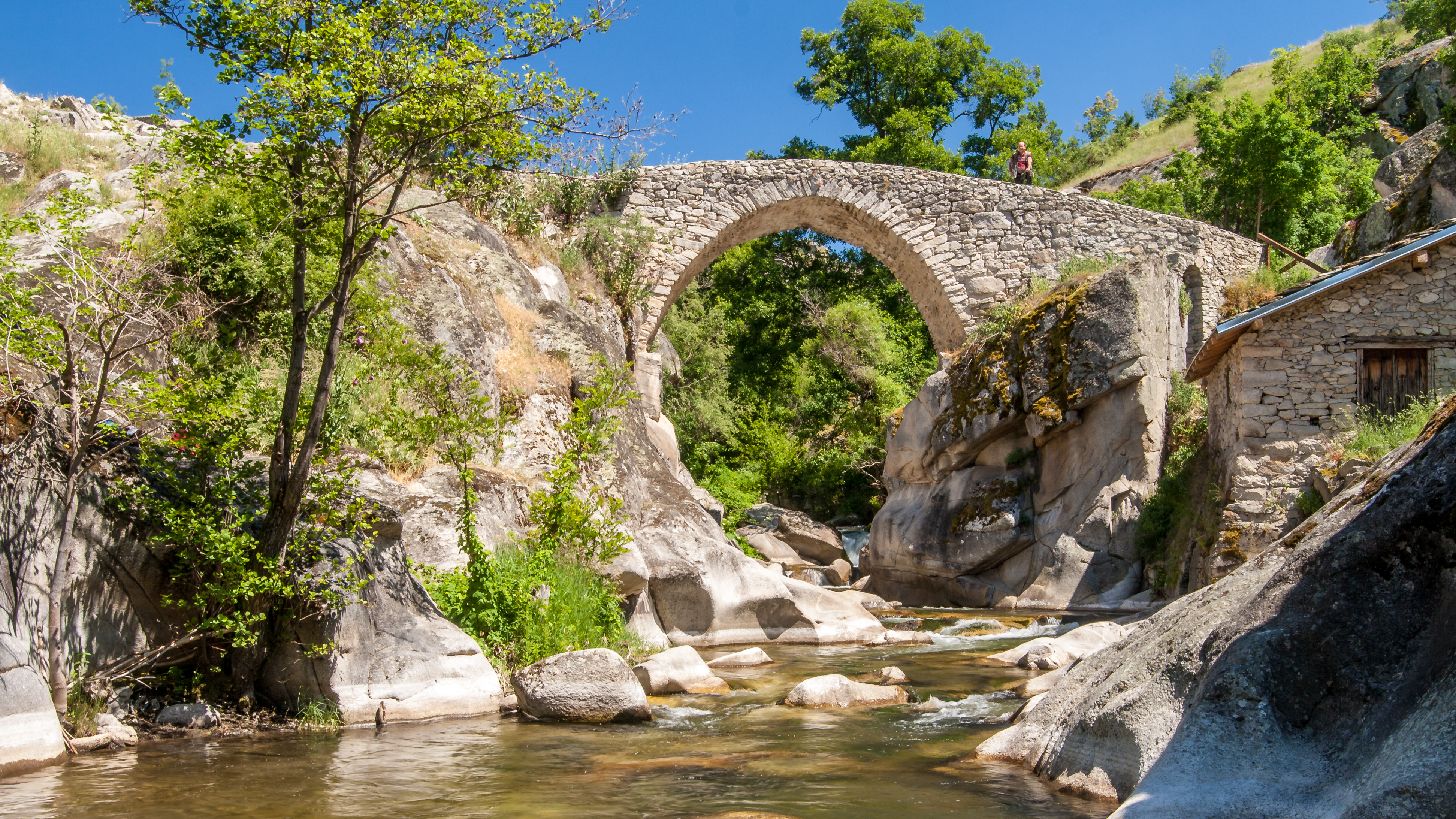 The Stone Bridge in the village of Zoviḱ